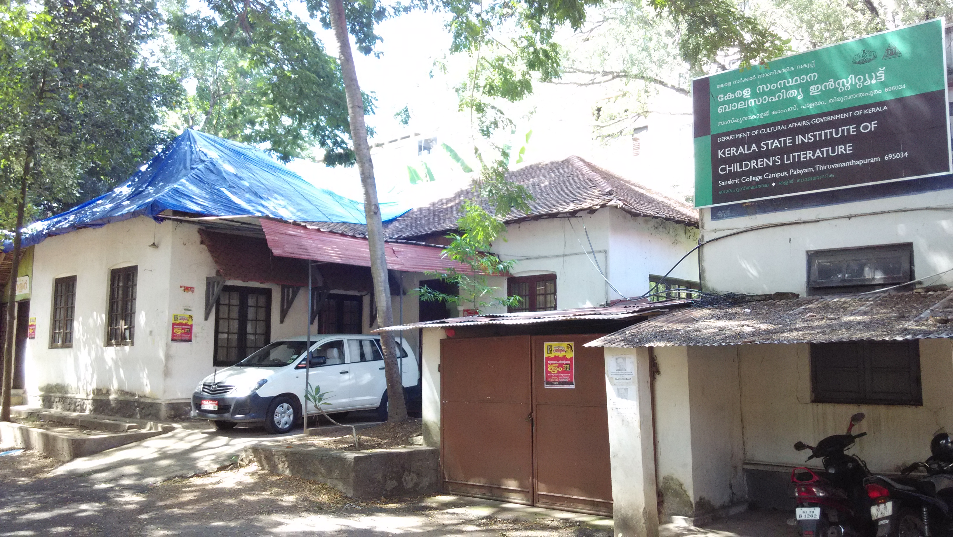 Kerala State Institute of Children's Literature(KSICL) Thiruvananthapuram